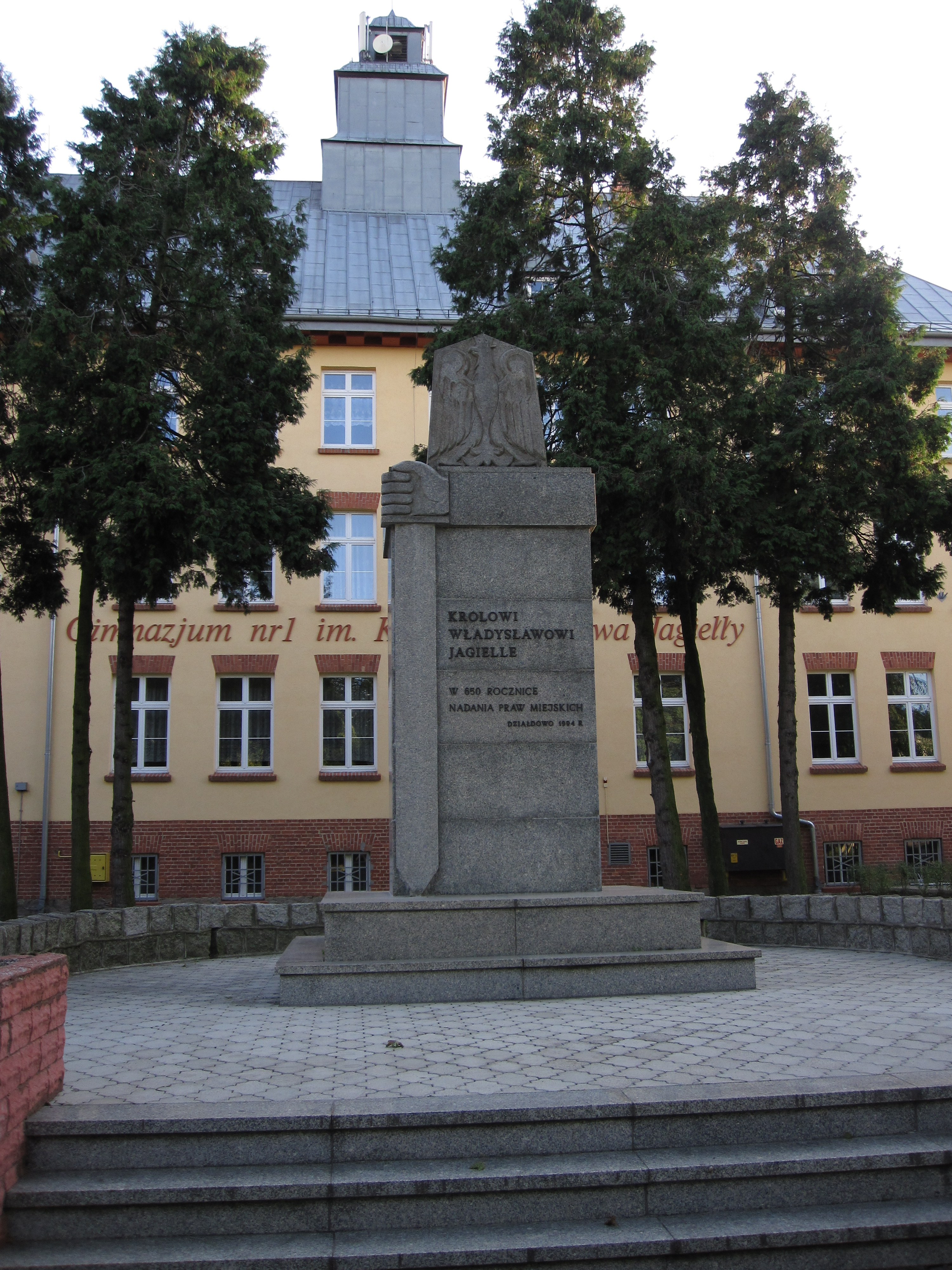 Działdowo - A monument erected on the anniversary of 650 years of city rights